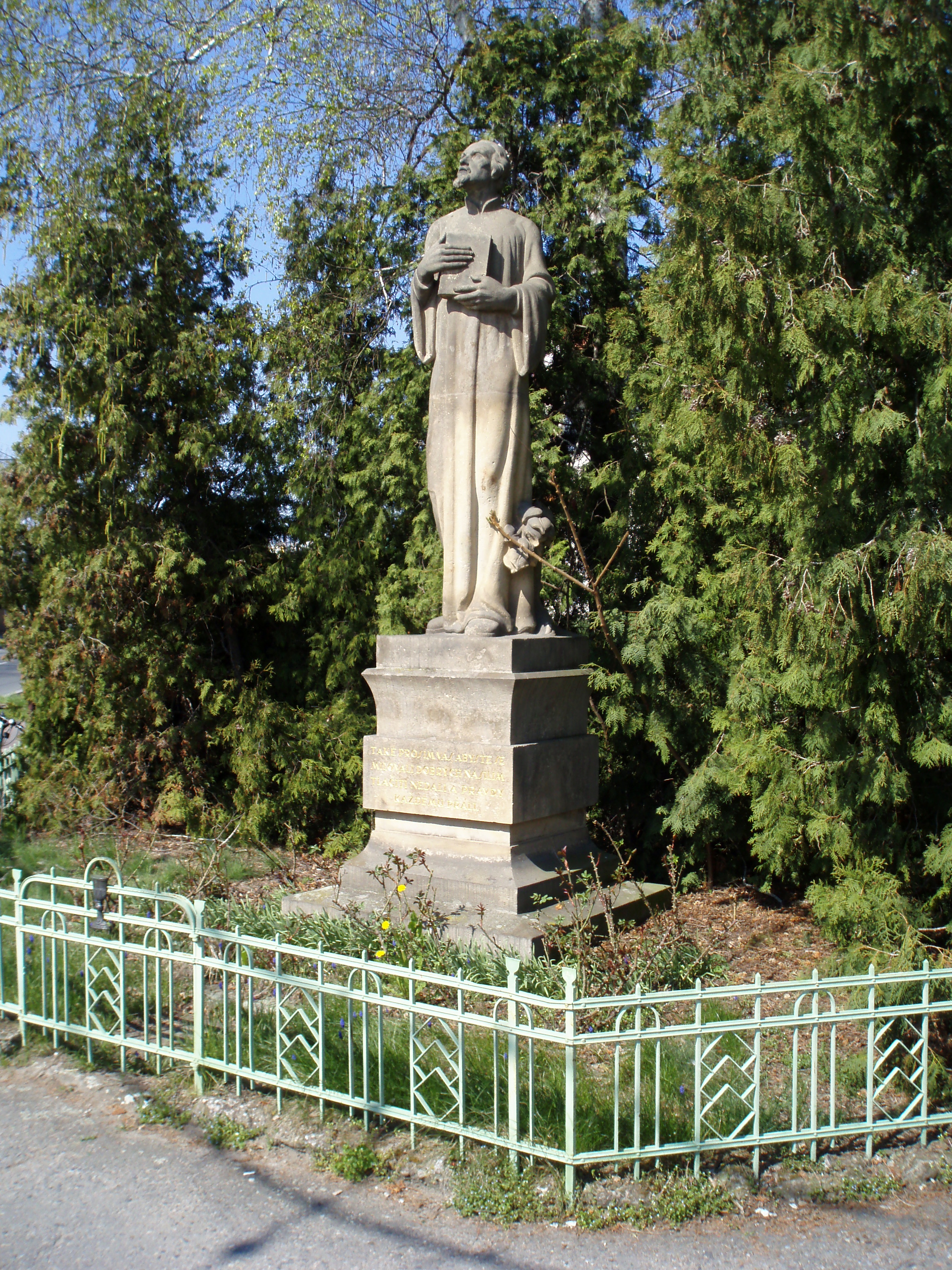 Jan Hus Monument in Malšovice (Hradec Králové)